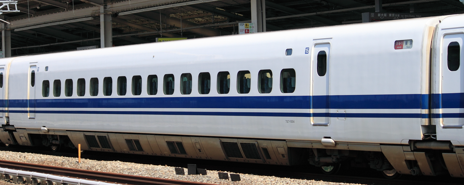 Shinkansen Series 700(727-554) in Nishi-Akashi Station